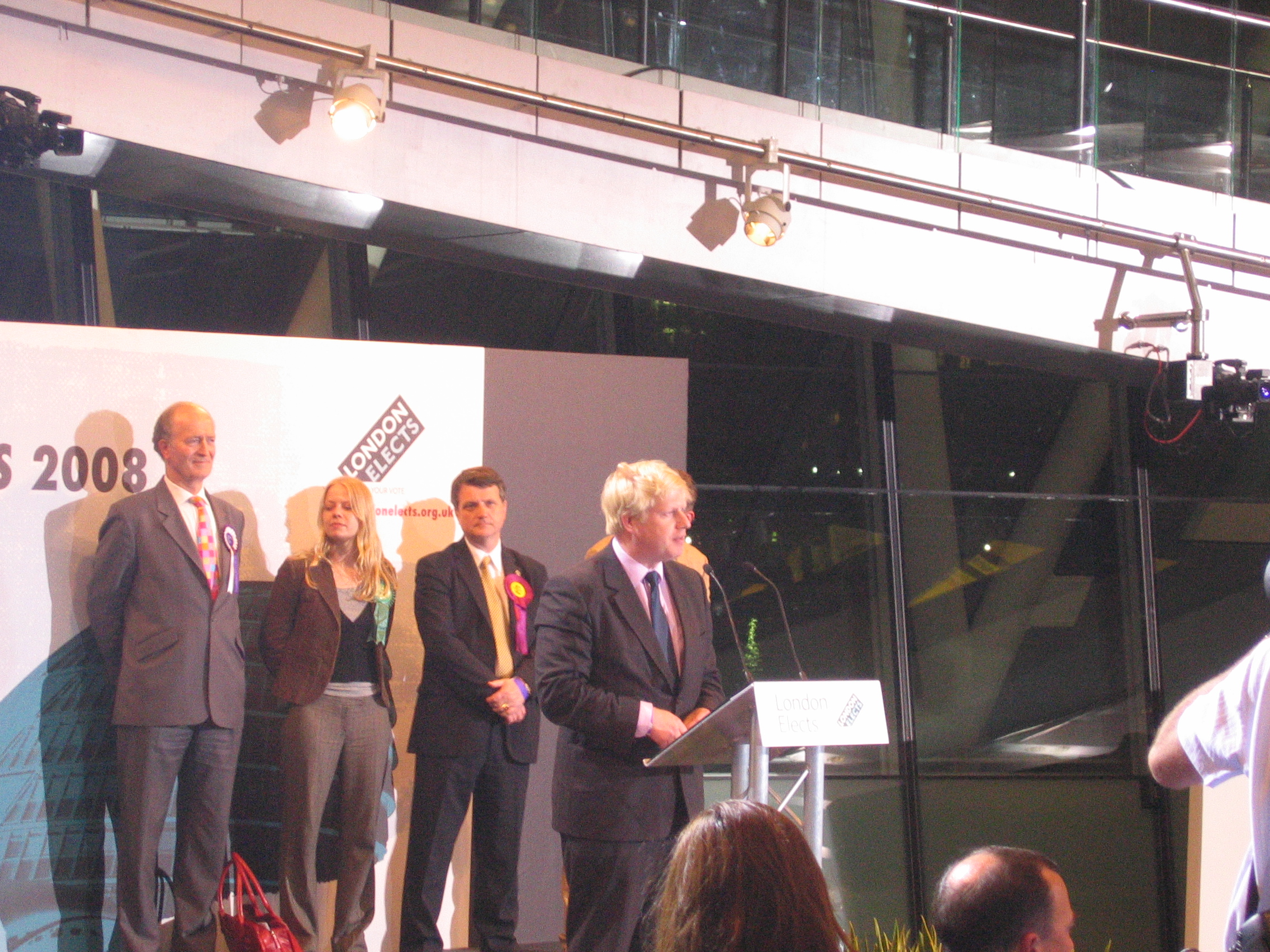 London Elections 2008, City Hall. Boris Johnson gives his winning speech.